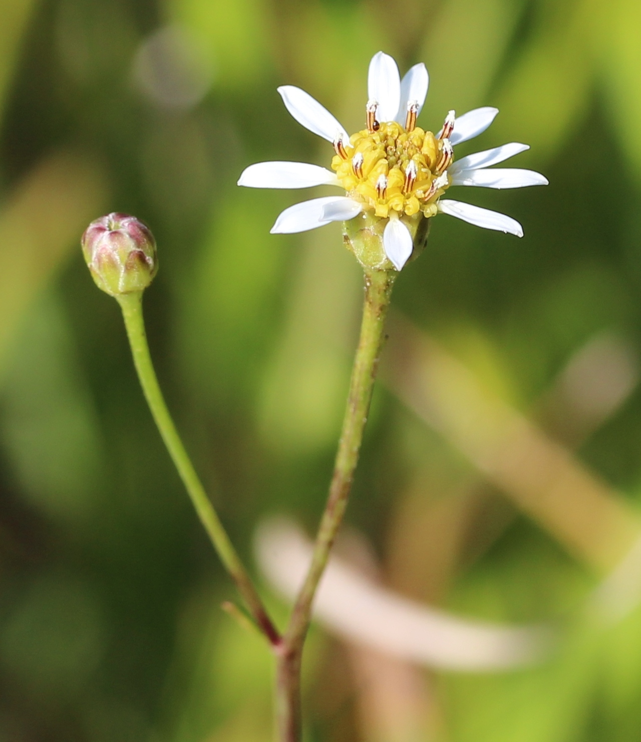 Bud and flower of Aster rugulosus, in Imou bog, Toyohashi, Aichi prefecture, Japan.